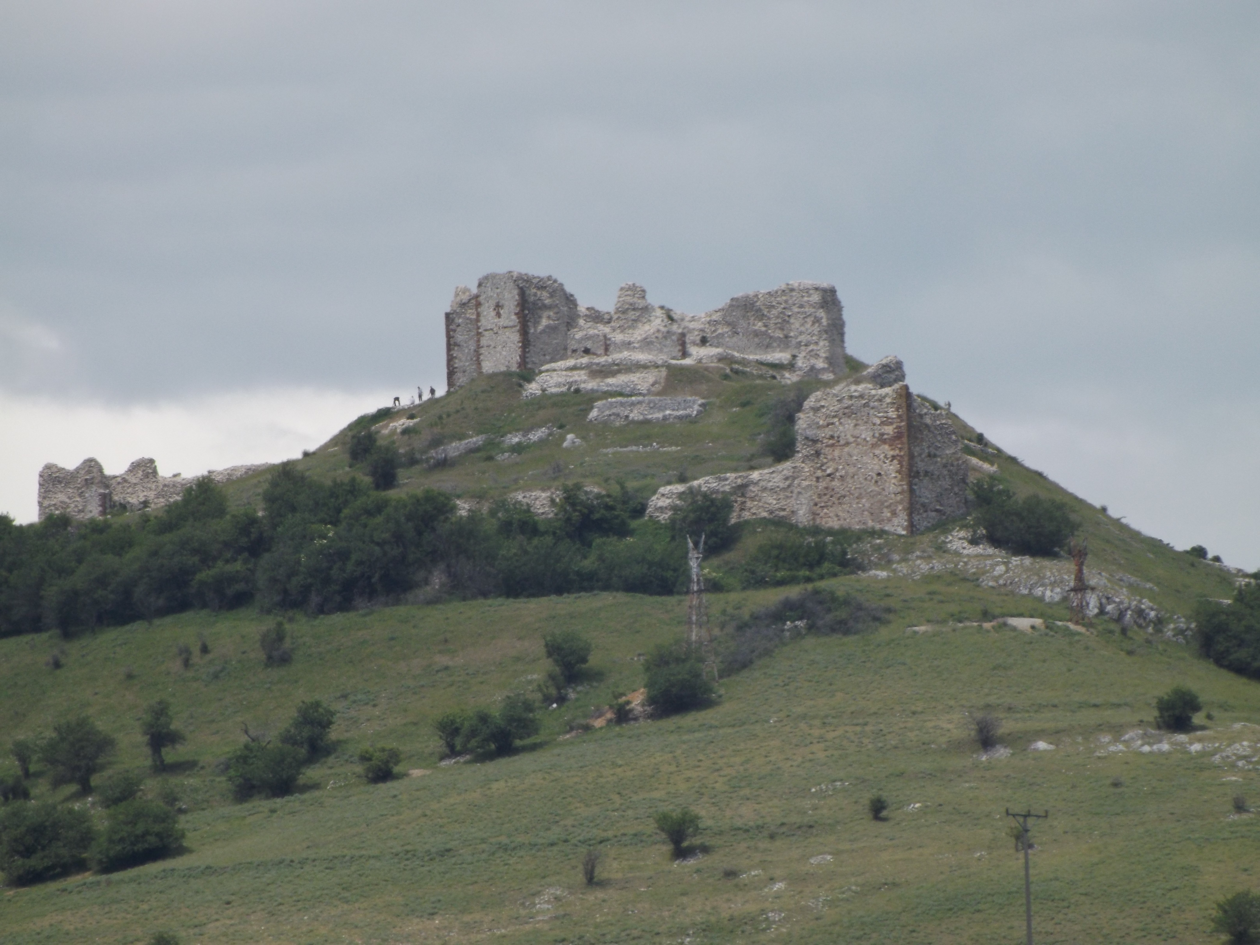 Novoberdo Castle, Novoberdo, Kosovo